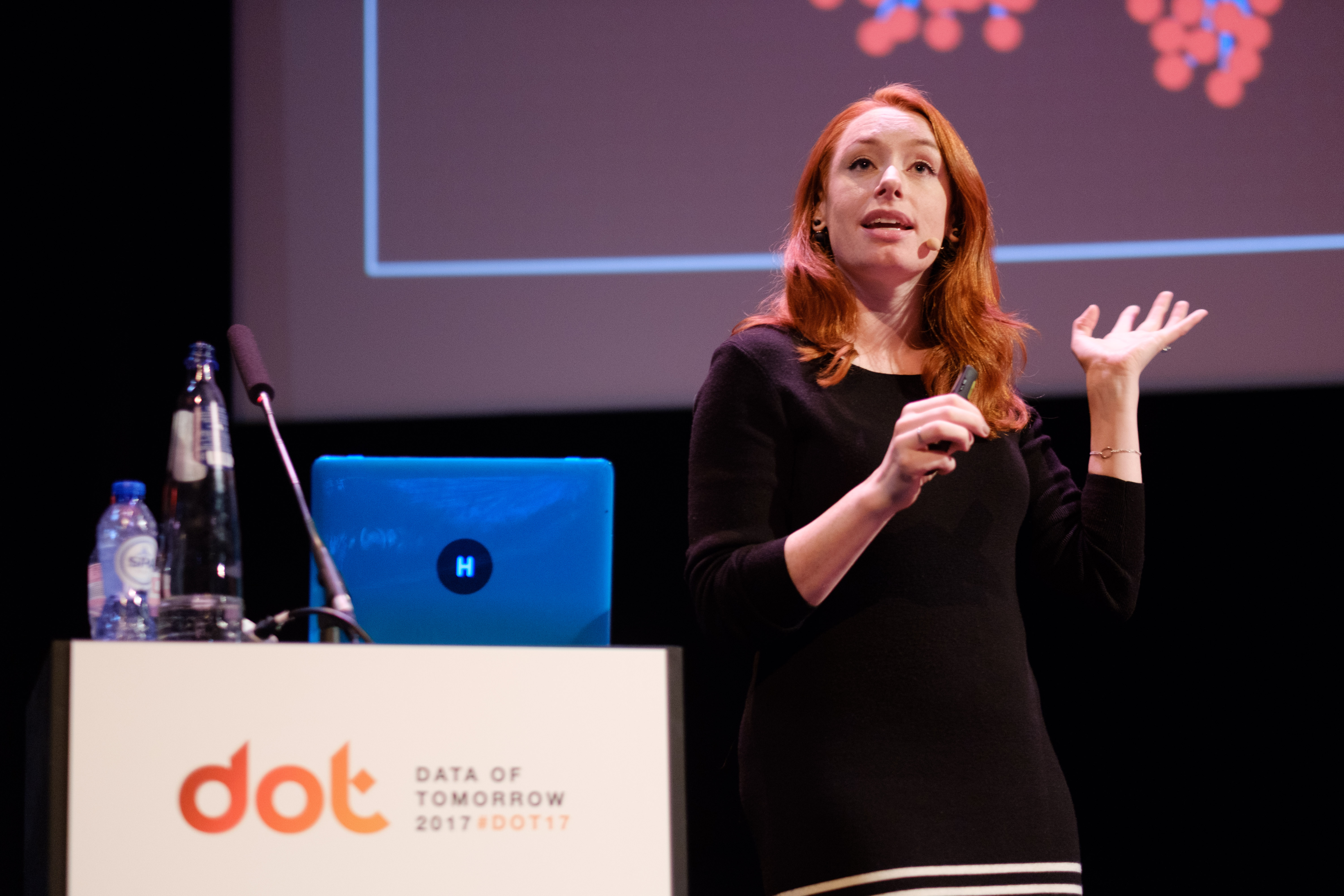 The European Data of Tomorrow Conference was both an educating and inspiring event about information, data and all its relevant, innovative and value-adding aspects. Data of Tomorrow gave attendees a glimpse of the future of Master Data Management (MDM), technology and industry trends – and the tools to shape it. The conference took place on September 20 and 21 in the EYE filmmuseum in Amsterdam, The Netherlands.